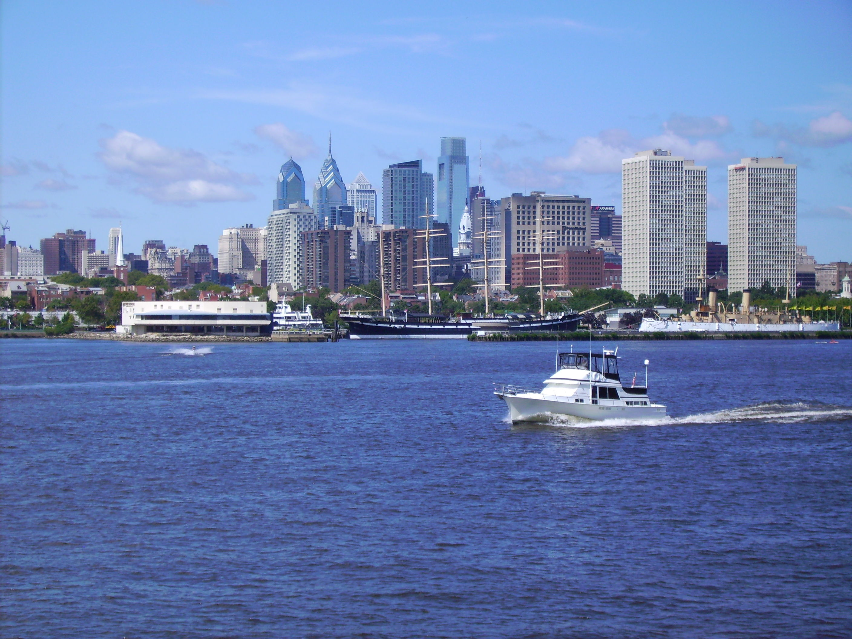 Skyline of Philadelphia (Pennsylvania) from the New Jersey-Site of the Delaware River.